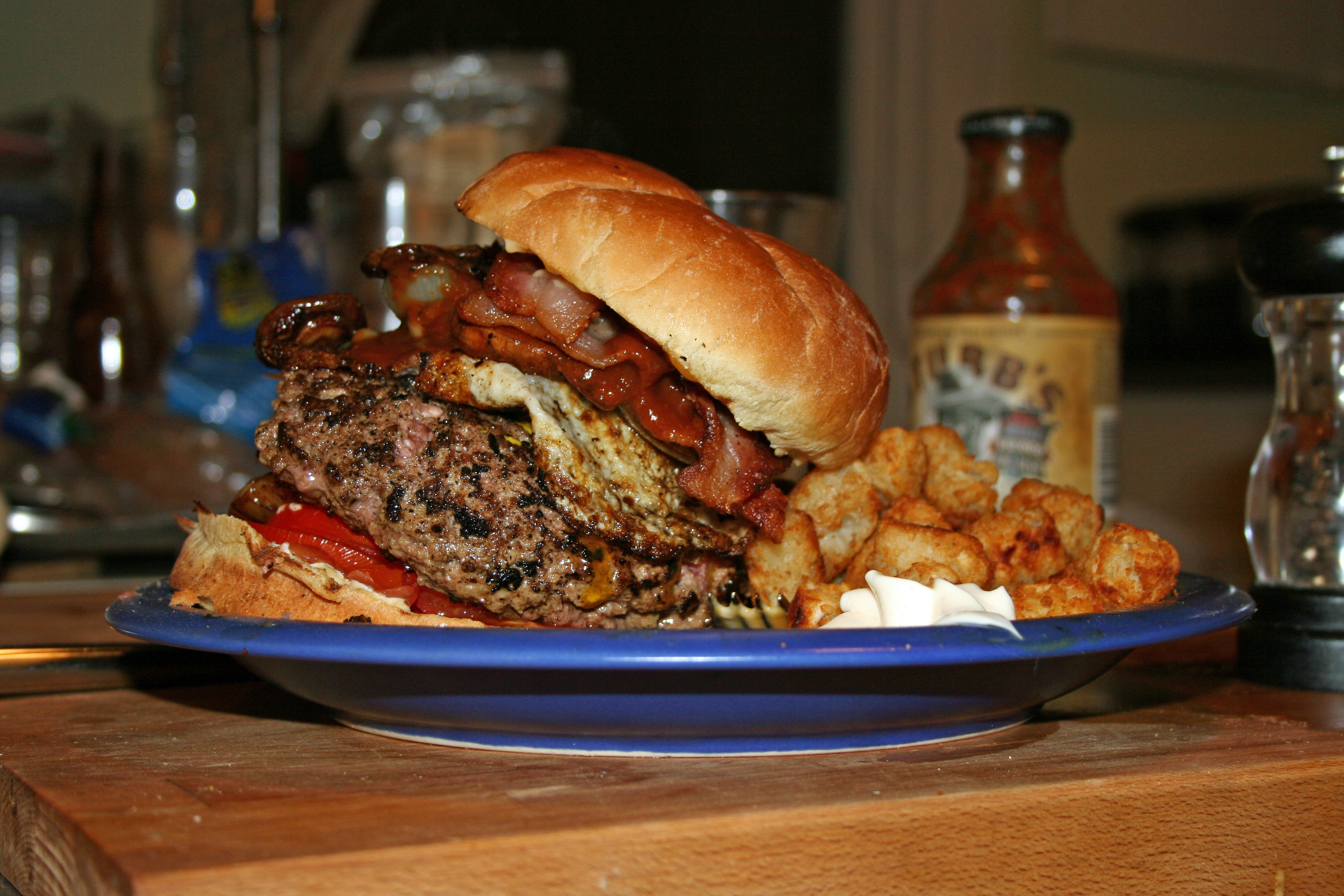 Mega Hamburger Four - Portabella mushrooms, bacon, grilled onions, pineapple, tomato, fried egg.